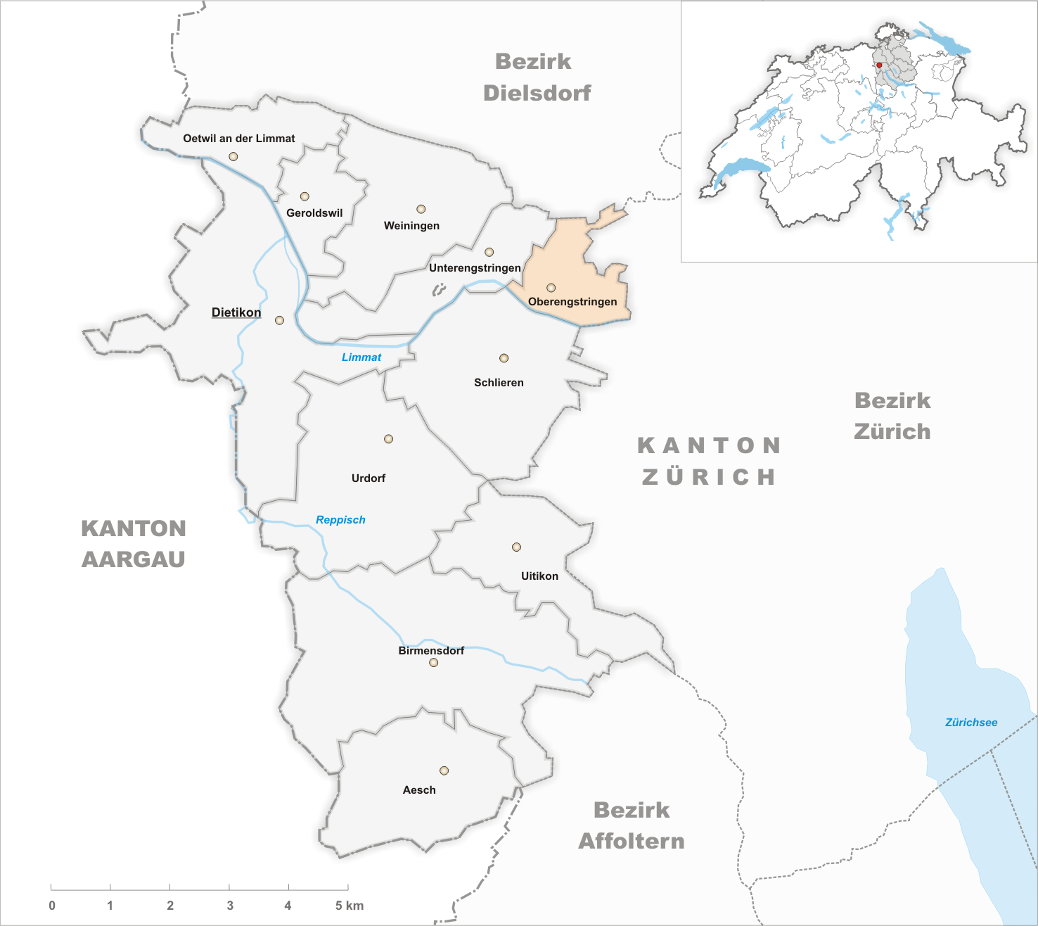 Municipality Oberengstringen